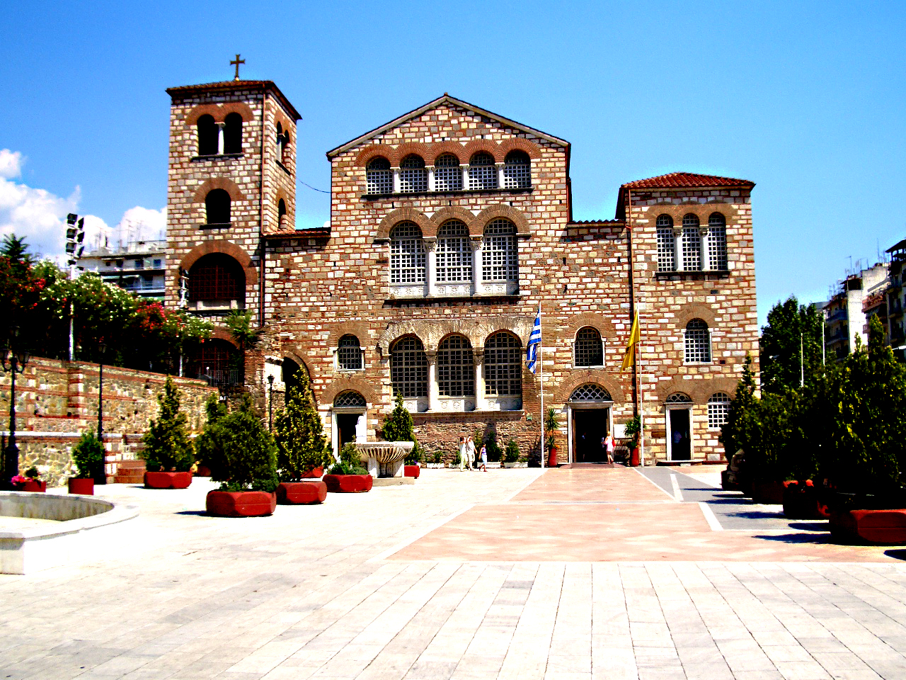 Church of Saint Demetrius Patron Saint of Thessaloniki